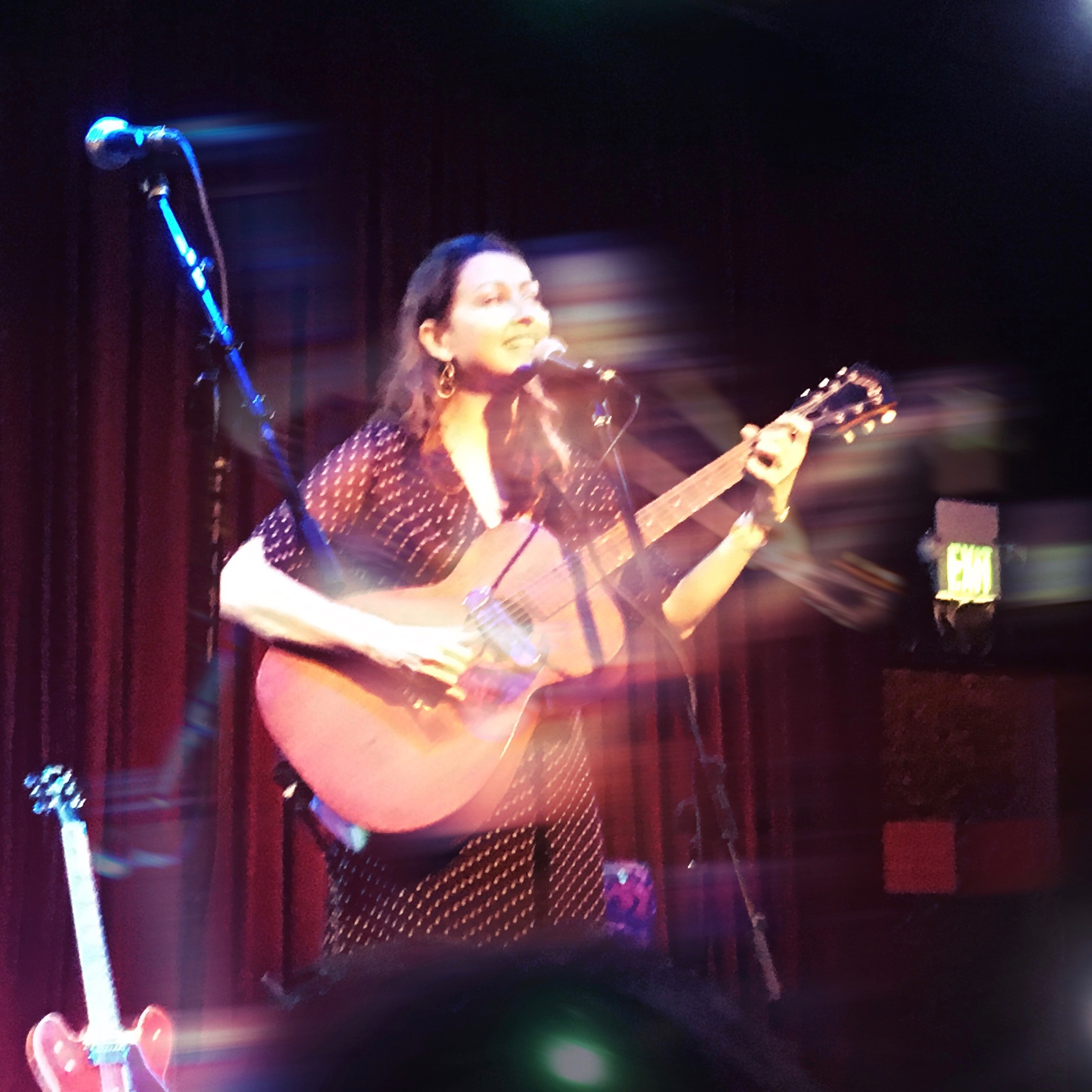 Simone White performing at Bootleg Theater, LA, 2019